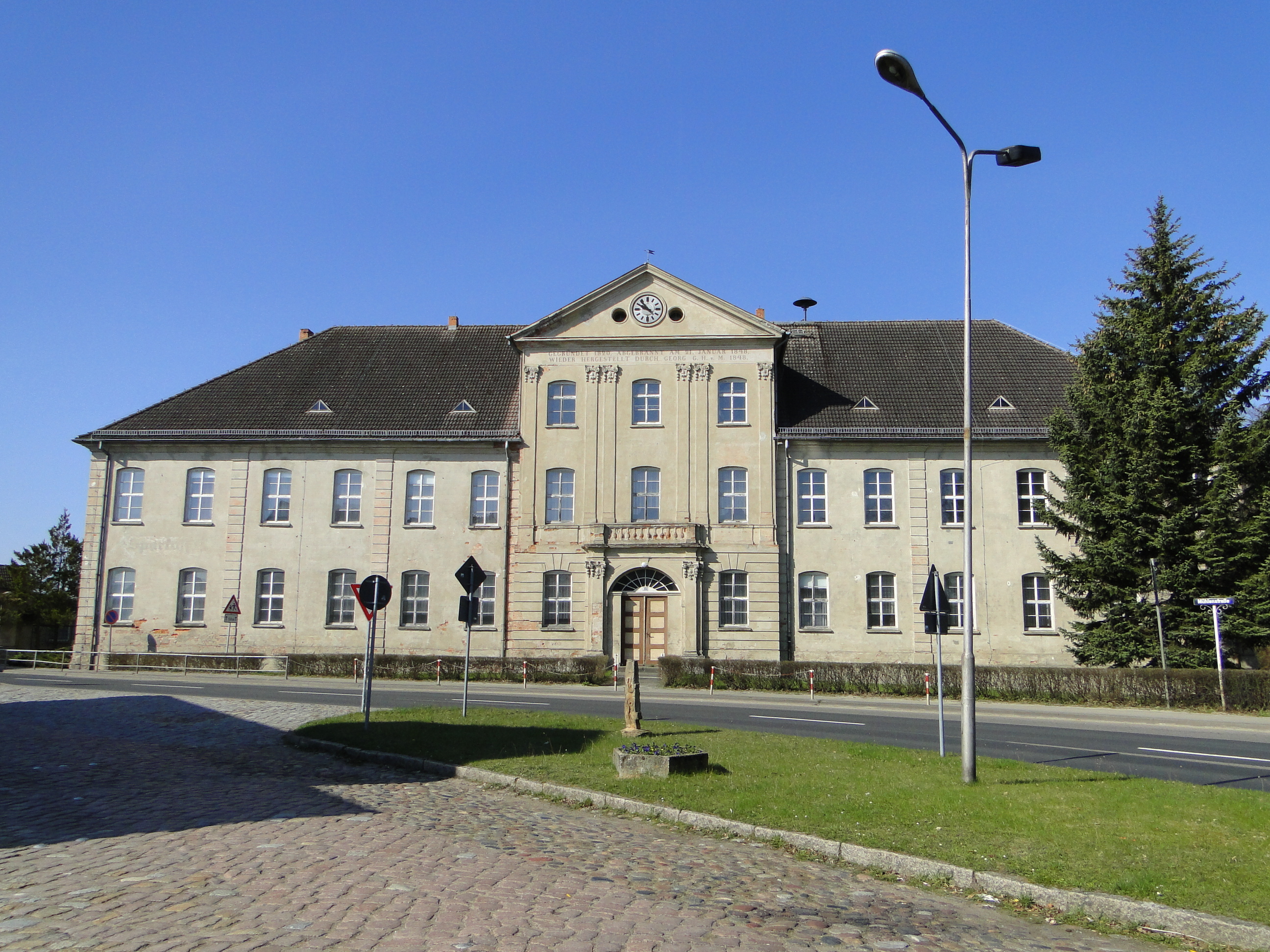 Unteres Schloss (Lower Castle, school building 1820-2006) in Mirow, disctrict Mecklenburgische Seenplatte, Mecklenburg-Vorpommern, Germany